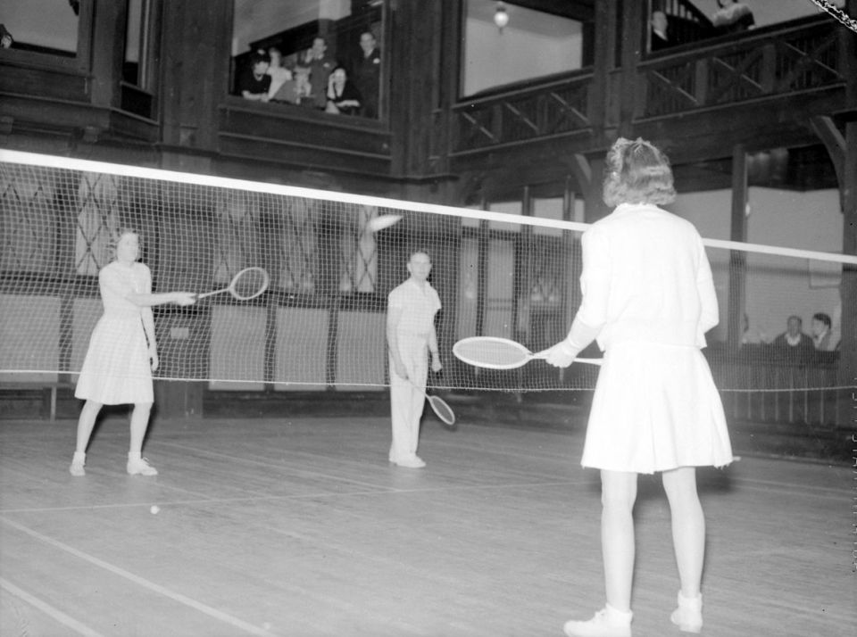 Three people playing badminton courts to Atwater in Montreal.